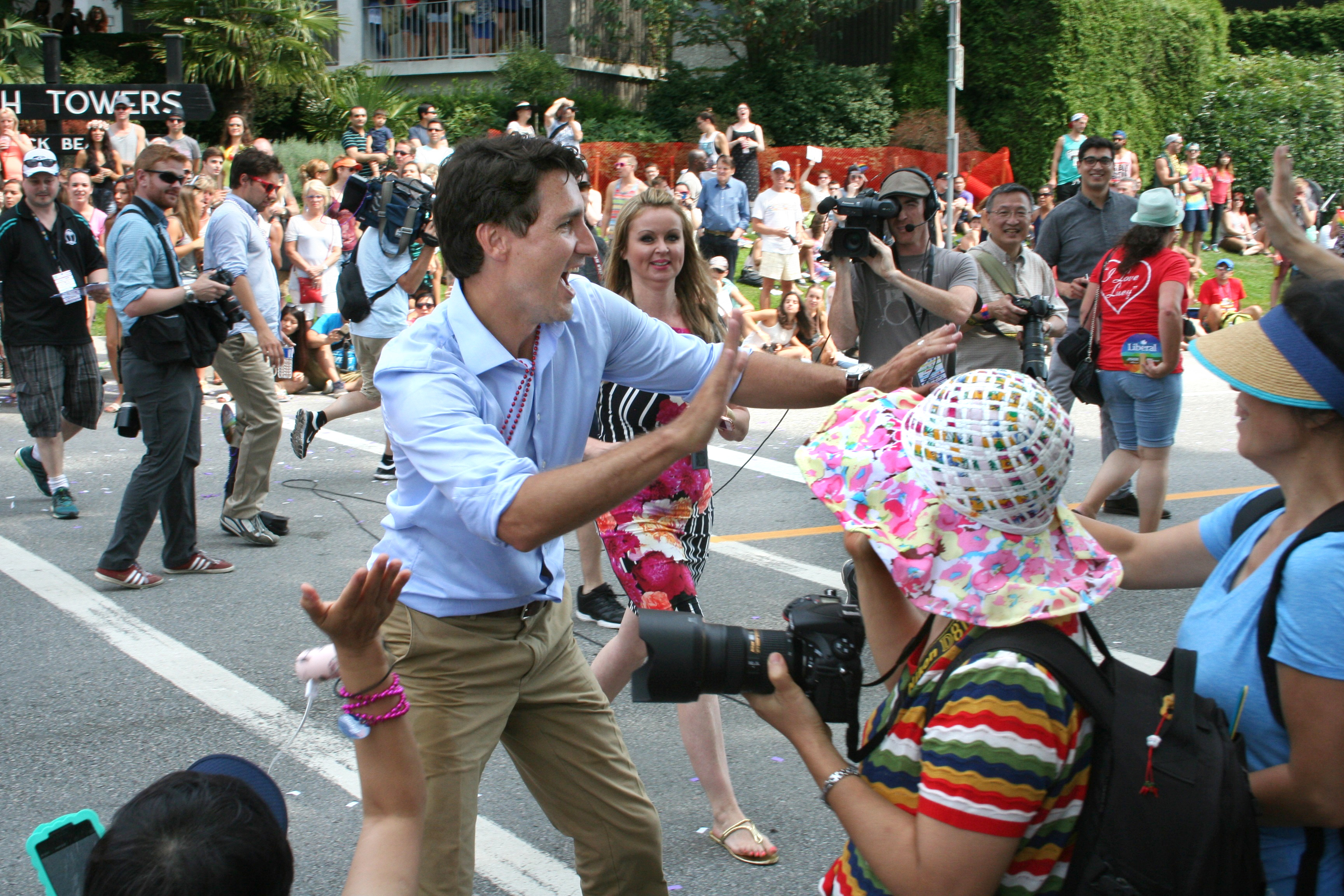 Justin Trudeau at the Vancouver LGBTQ Pride 2015, shortly after his campaign launch for the 2015 Canadian federal election.